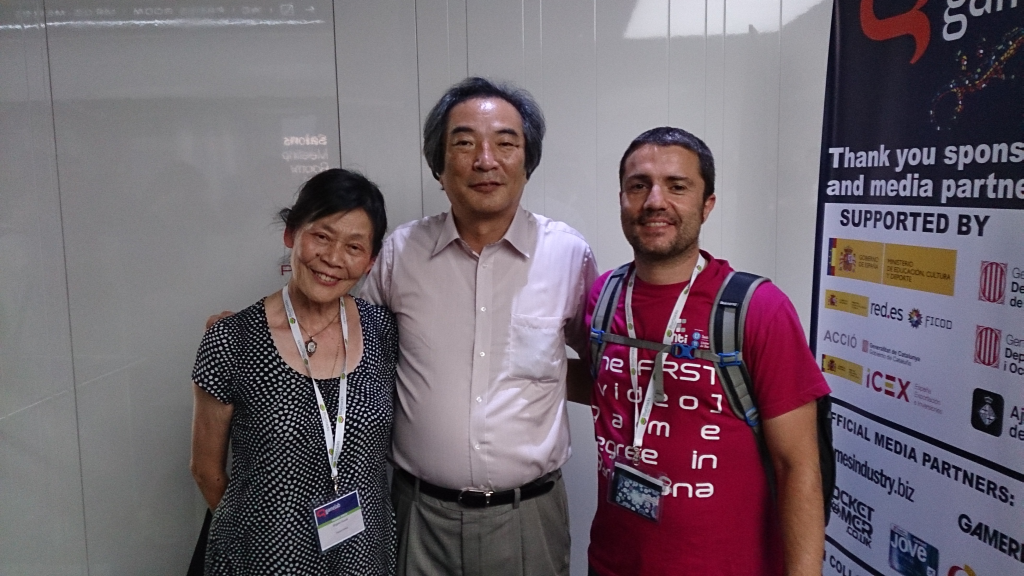 Toru Iwatani (center), designer of PAC-MAN, during Gamelab_Barcelona'2015. Oscar Garcia-Panella, facilitator to take this image, is on his left side.